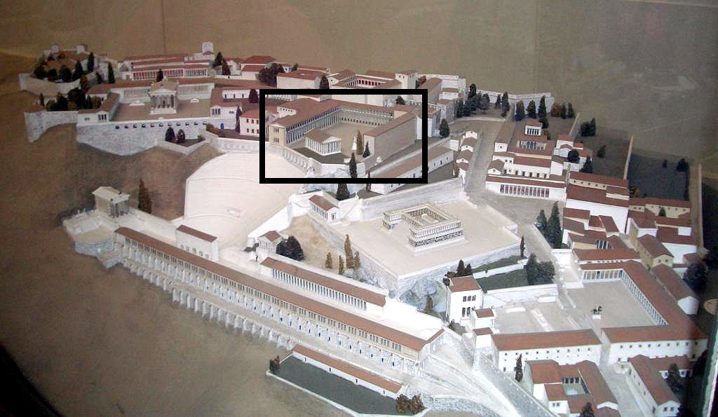 A model of the acropolis of the ancient Greek city of Pergamon, showing the situation in the 2nd century AD, by Hans Schleif (1902-1945). Sanctuary of Athena is marked.